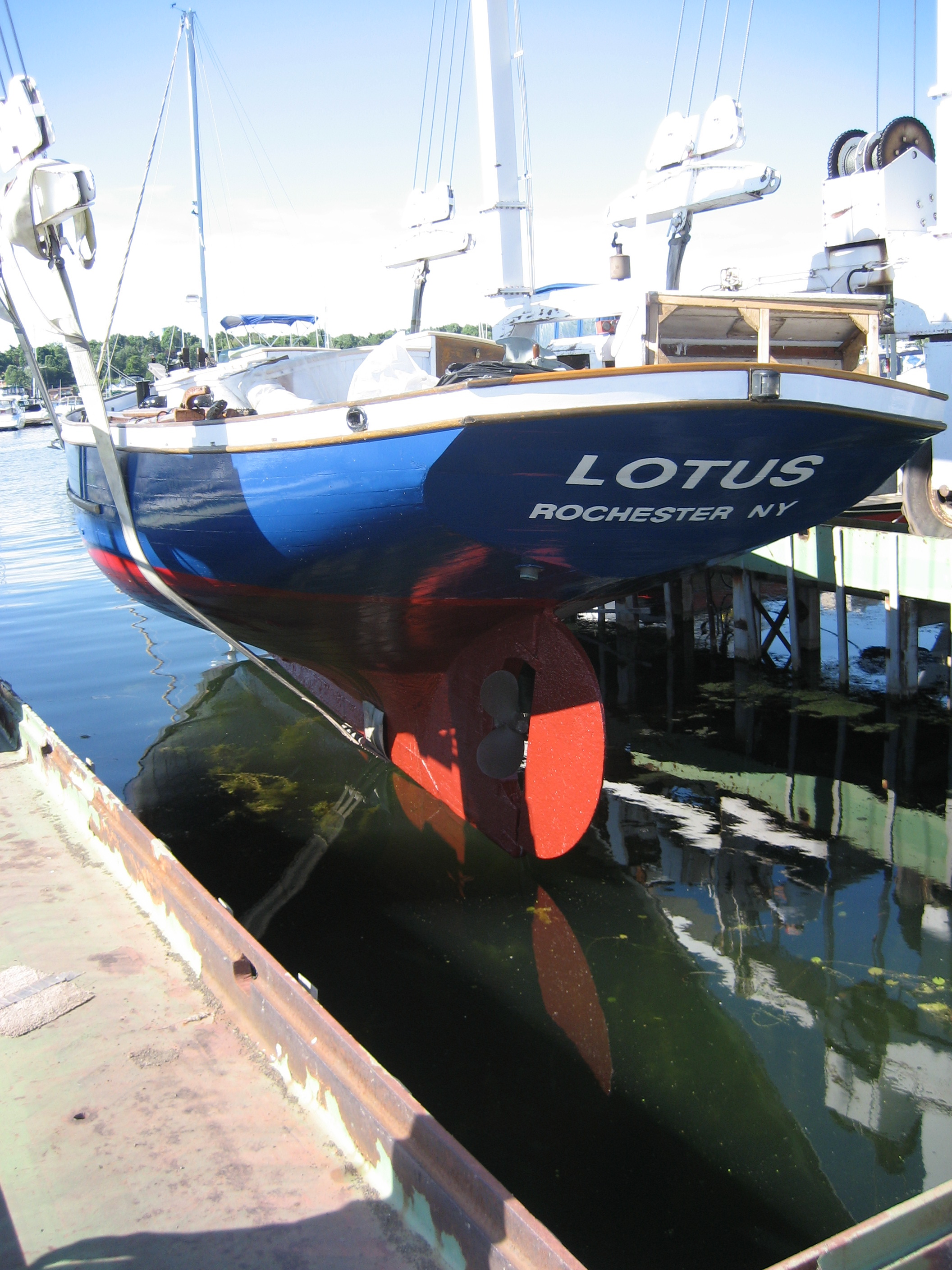 Schooner Lotus Lowered into Sodus Bay, 2007